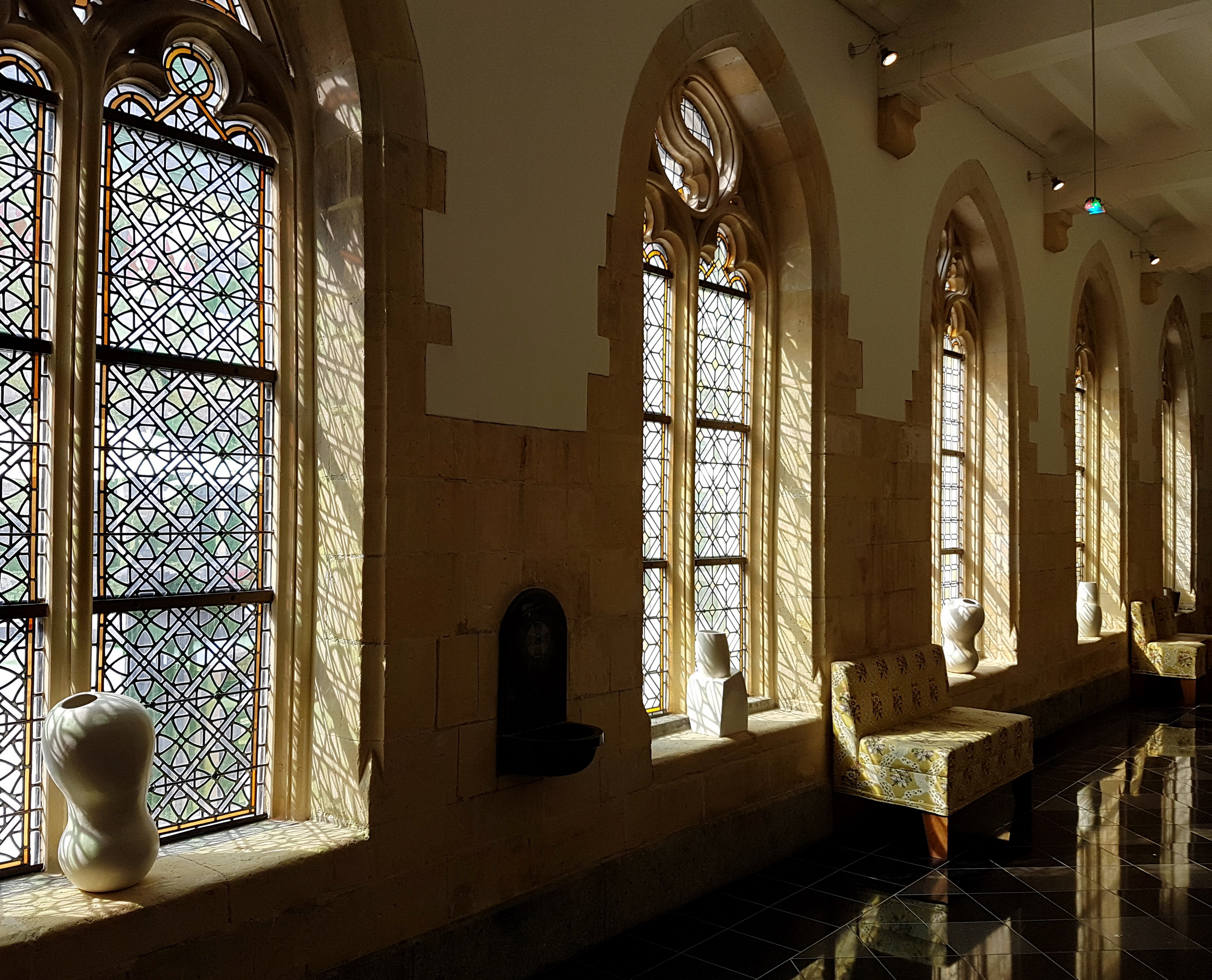 View of the east corridor of the cloisters of the Kruisherenklooster in Maastricht, the Netherlands. The Gothic Monastery of the Crutched Friars dates from the 15th century and in 2005 was converted into a luxury hotel, the Kruisherenhotel. The cloisters were originally partly open towards the cloister yard. The leaded-glass windows were possibly designed by Pierre Cuypers.